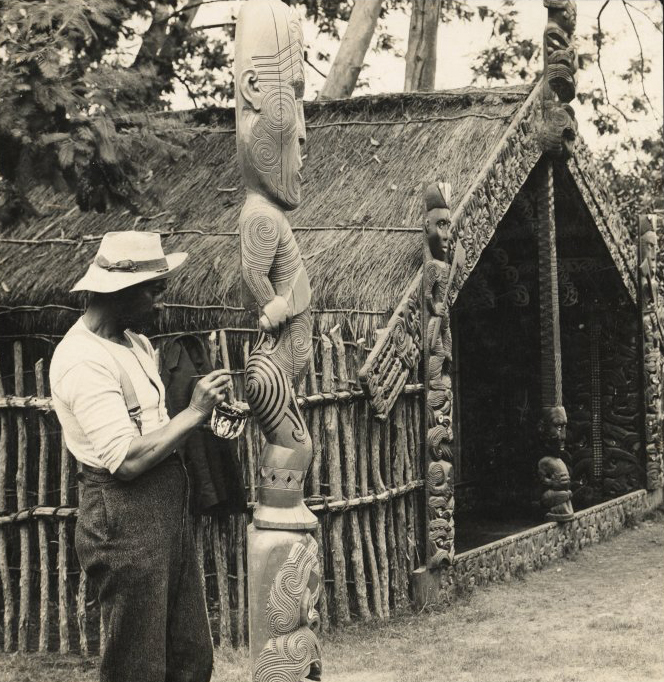 Painting the tattoo on a carved tiki at the Whakarewarewa model village ca 1905. (Part of collection "Cowan, James, 1870-1943 :Collection of photographs.ca 1860 - 1930")